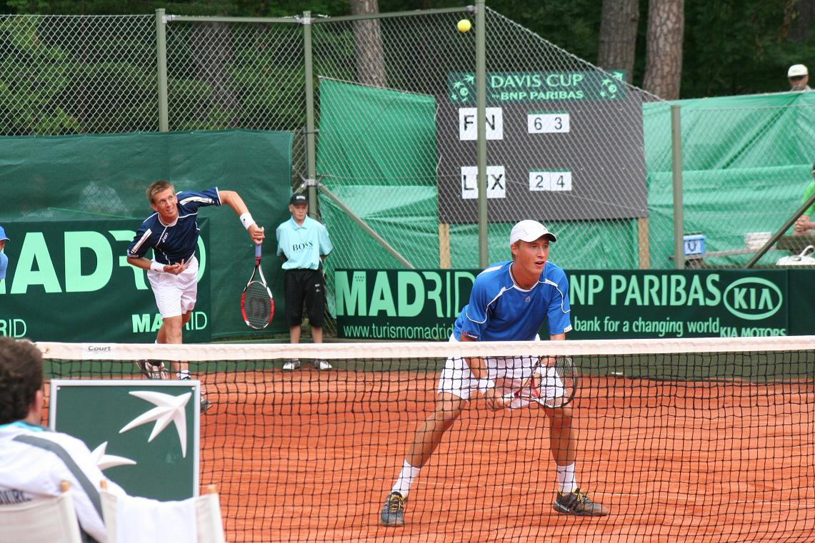 Finnish tennis players Jarkko Nieminen (left) and Henri Kontinen playing Davis Cup double against Luxemburg in Hanko, Finland in July 2008. Photo by Jonny Smeds.